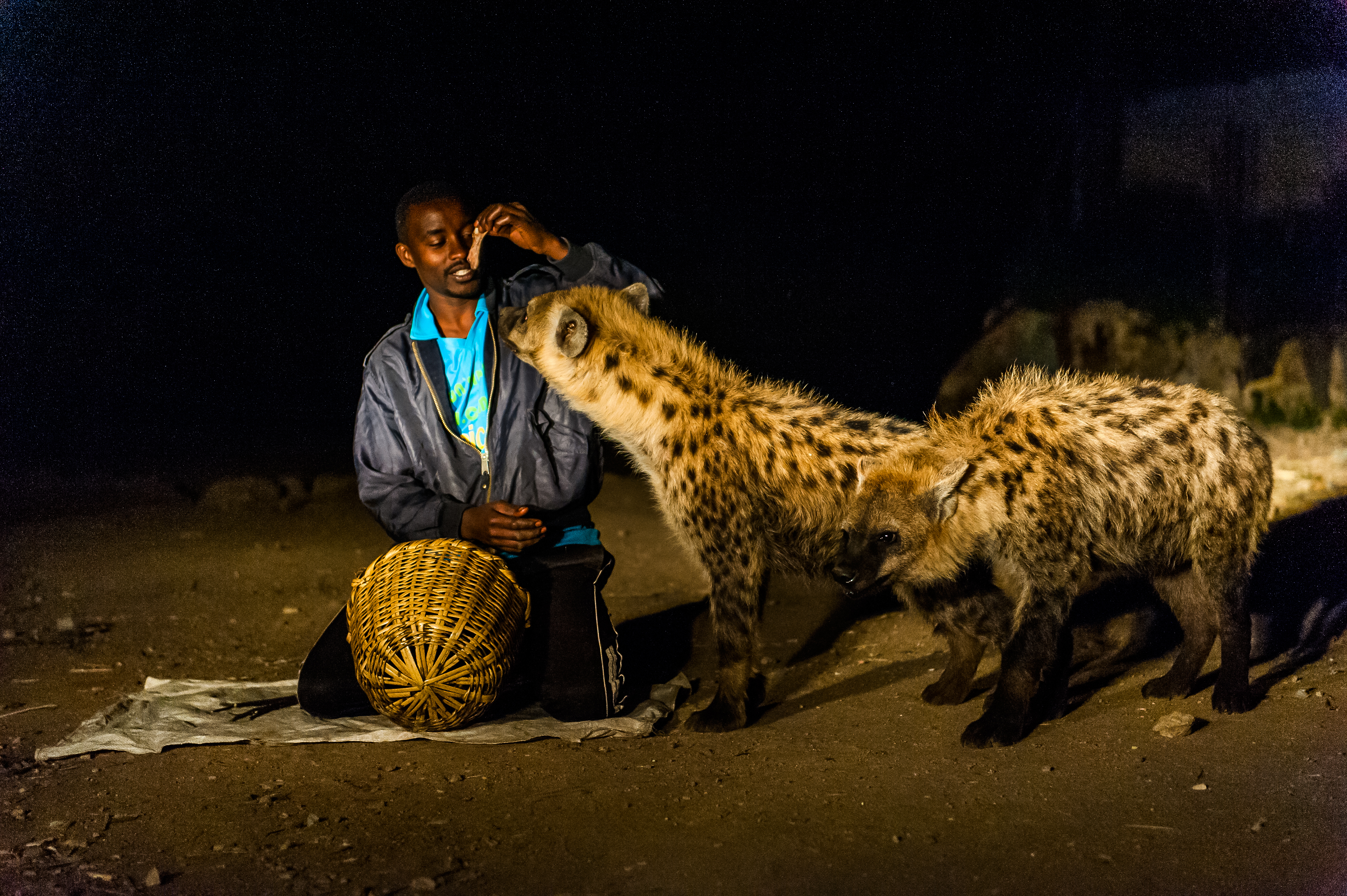 The Hyena Man in Harar, Ethiopia in 2014. This is an image of "African people at work" from Ethiopia